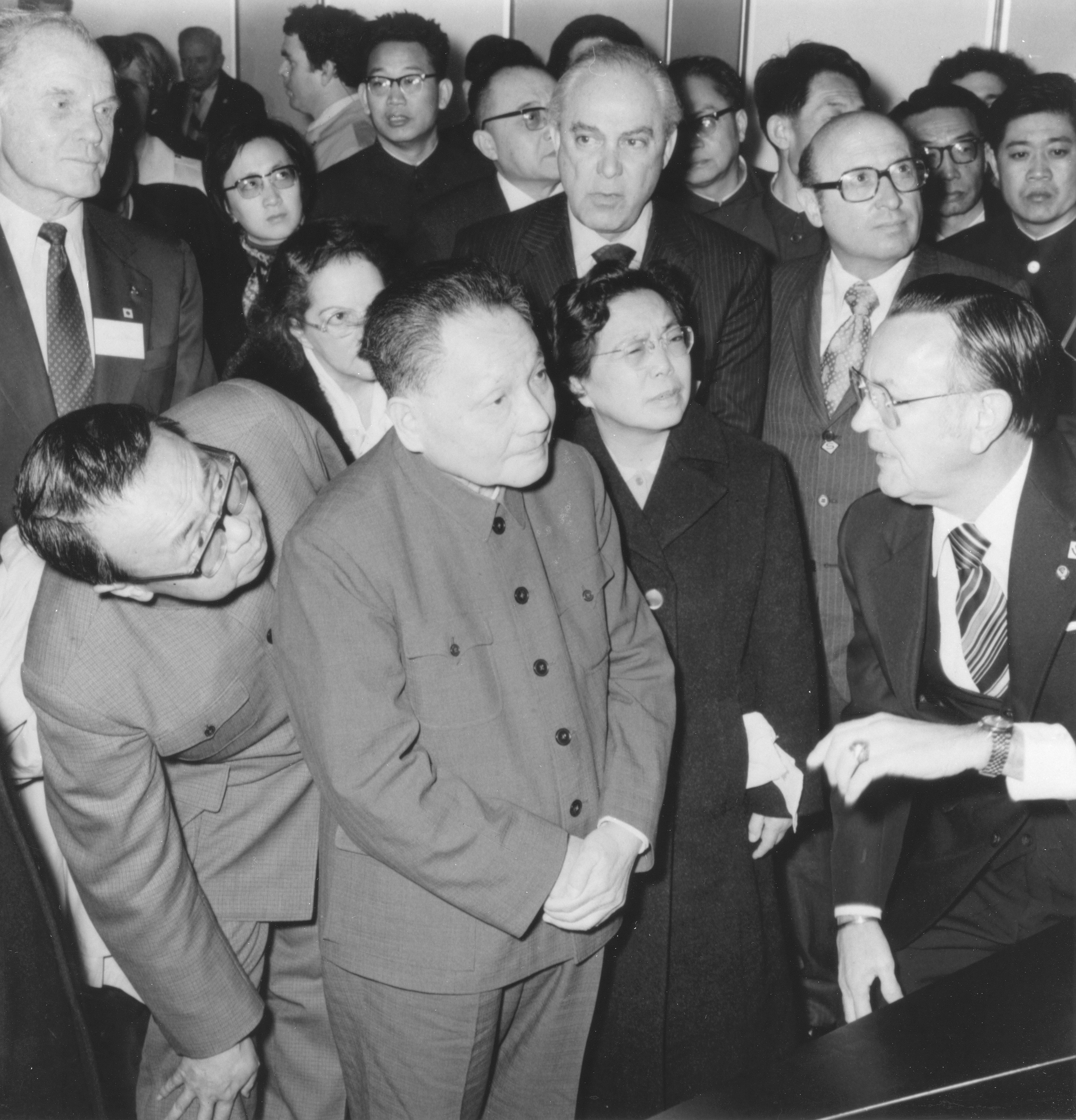 Deng Xiaoping, Vice Premier of the People's Republic of China state council, and his wife are briefed by Johnson Space Center director Dr. Christopher C. Kraft. A complete review of NASA's manned space program was given, using exhibit scale models and flight simulators.